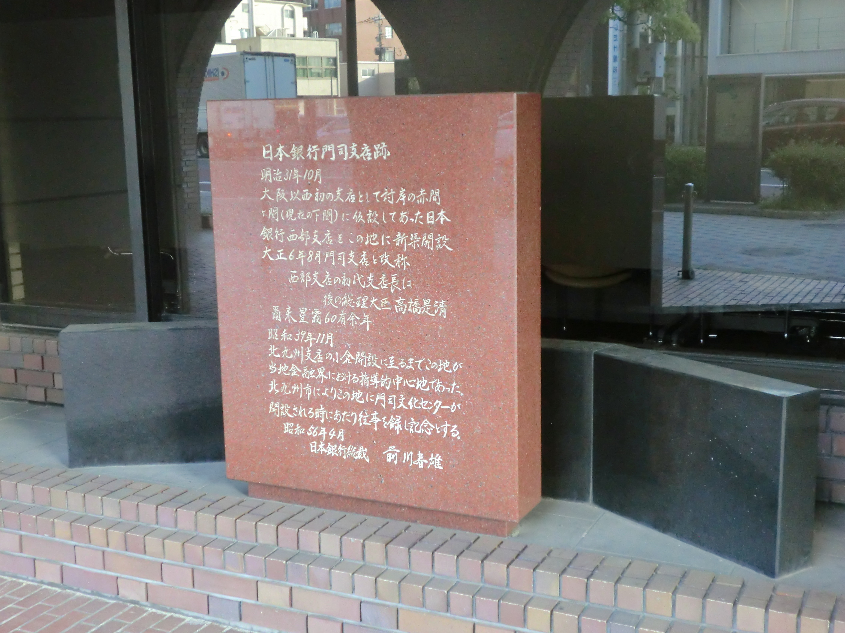 Memorial stele of Bank of Japan Moji branch. Stele epitaph is written by Haruo Maekawa, 24th governor of BOJ.